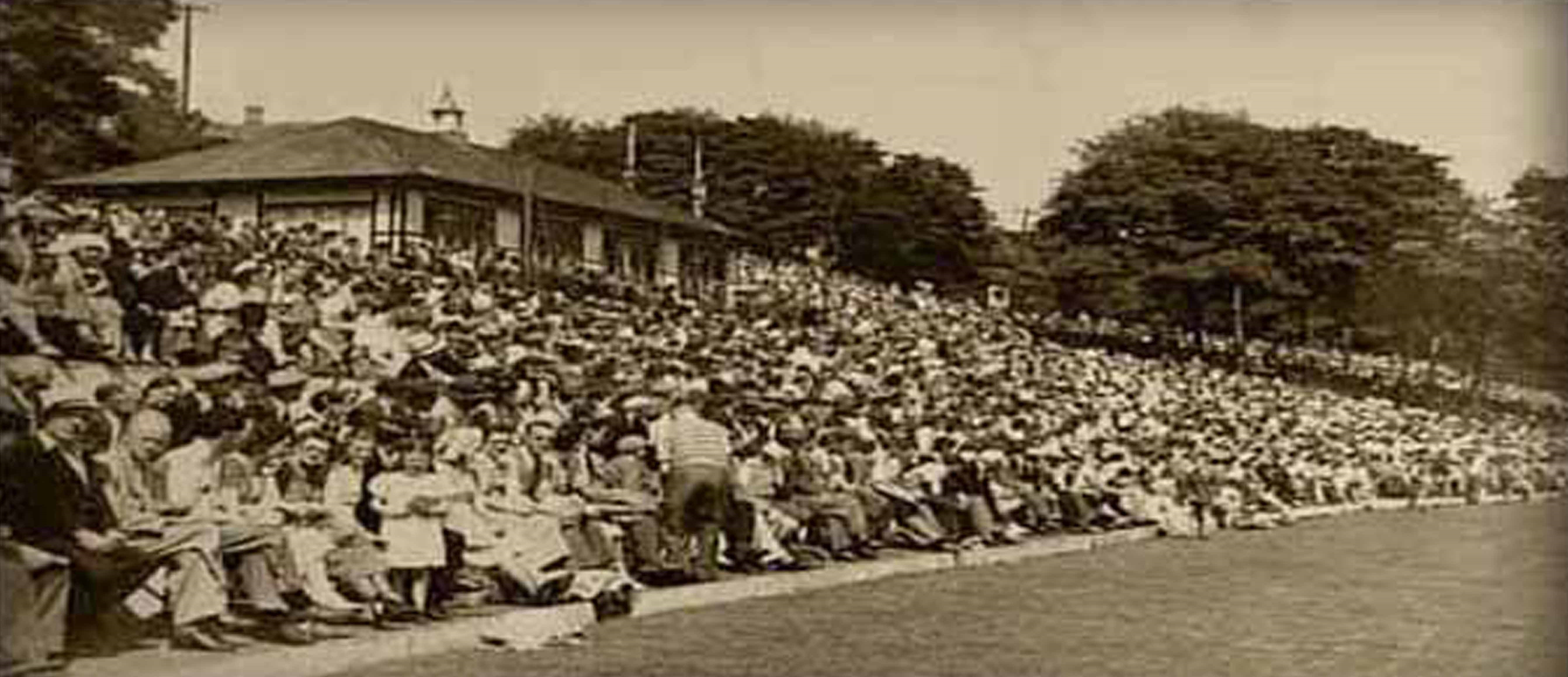 Picture of crowd from 1932 at Oxenham Park